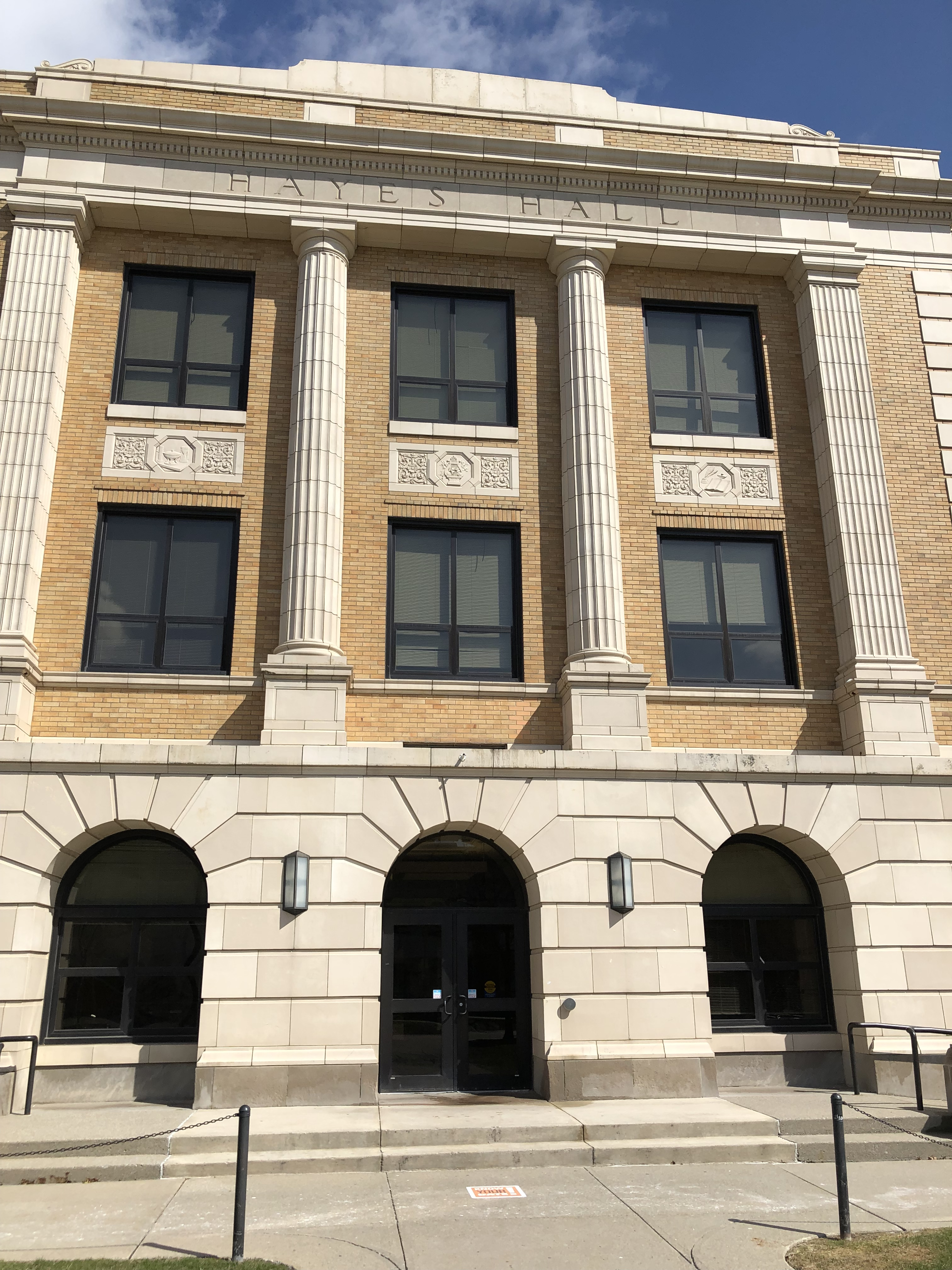 Hayes Hall at Bowling Green State University.